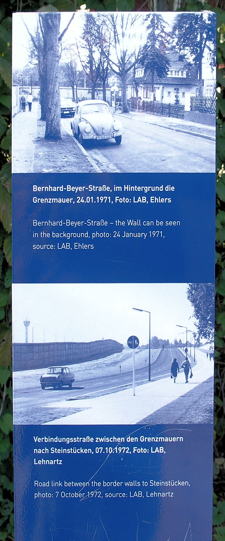 Memorial plaque, Steinstücken, Königsweg 308, Berlin-Wannsee, Germany Koordinate:52°23′51″N 13°8′36″E / 52.3975°N 13.14333°E